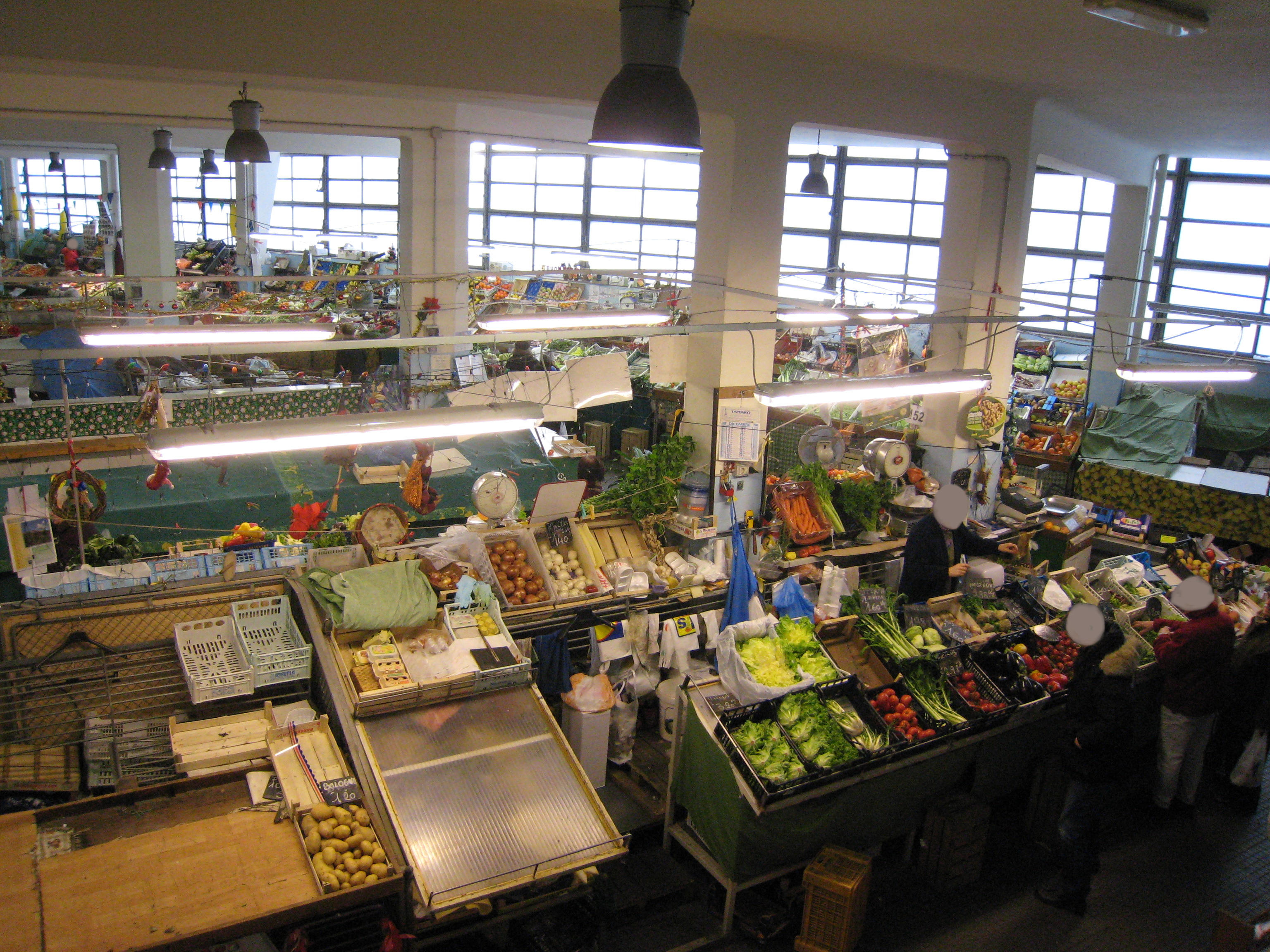 Italy - Trieste - indoor market